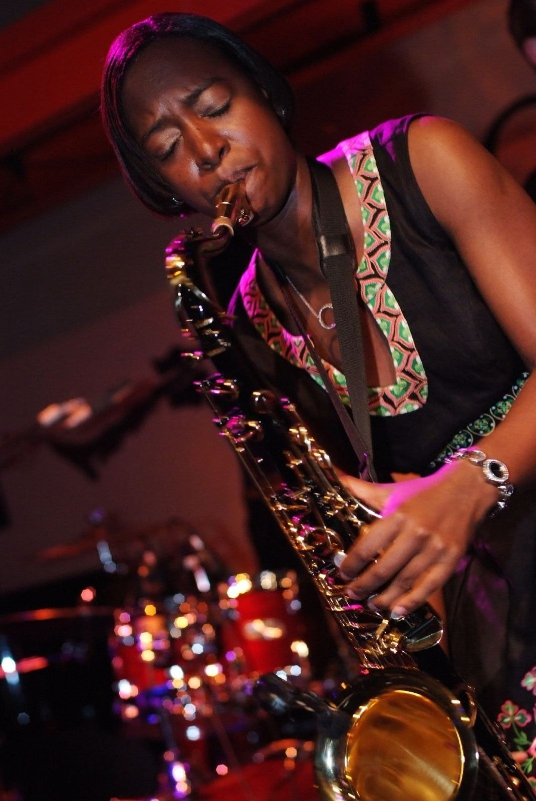 Yolanda Brown